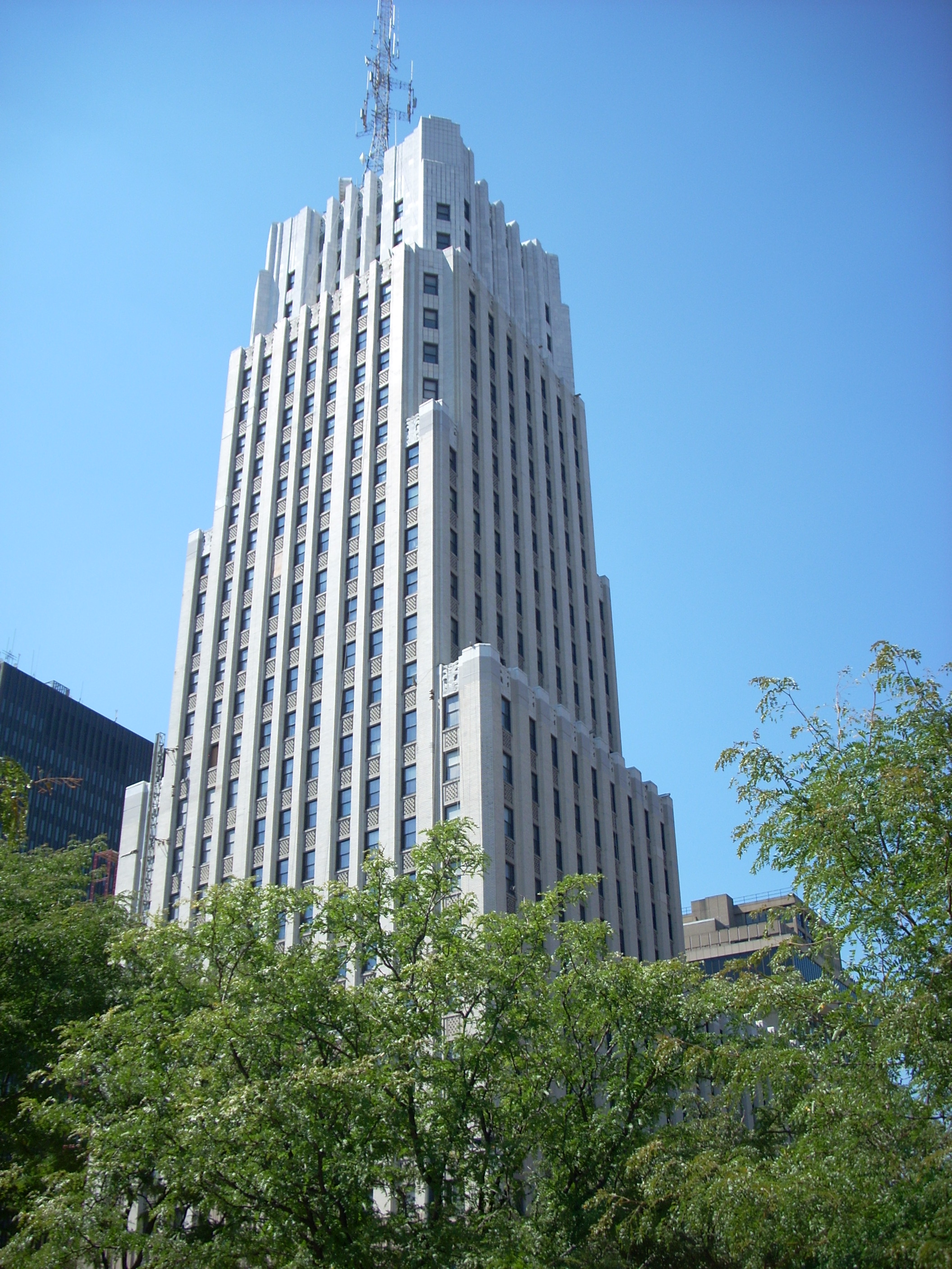 FirstMerit Tower in Akron Originally uploaded on 2007-09-06 by User:Ntyler01mil as :Image:DSCN0088.jpg (since deleted) under a PD-self license.